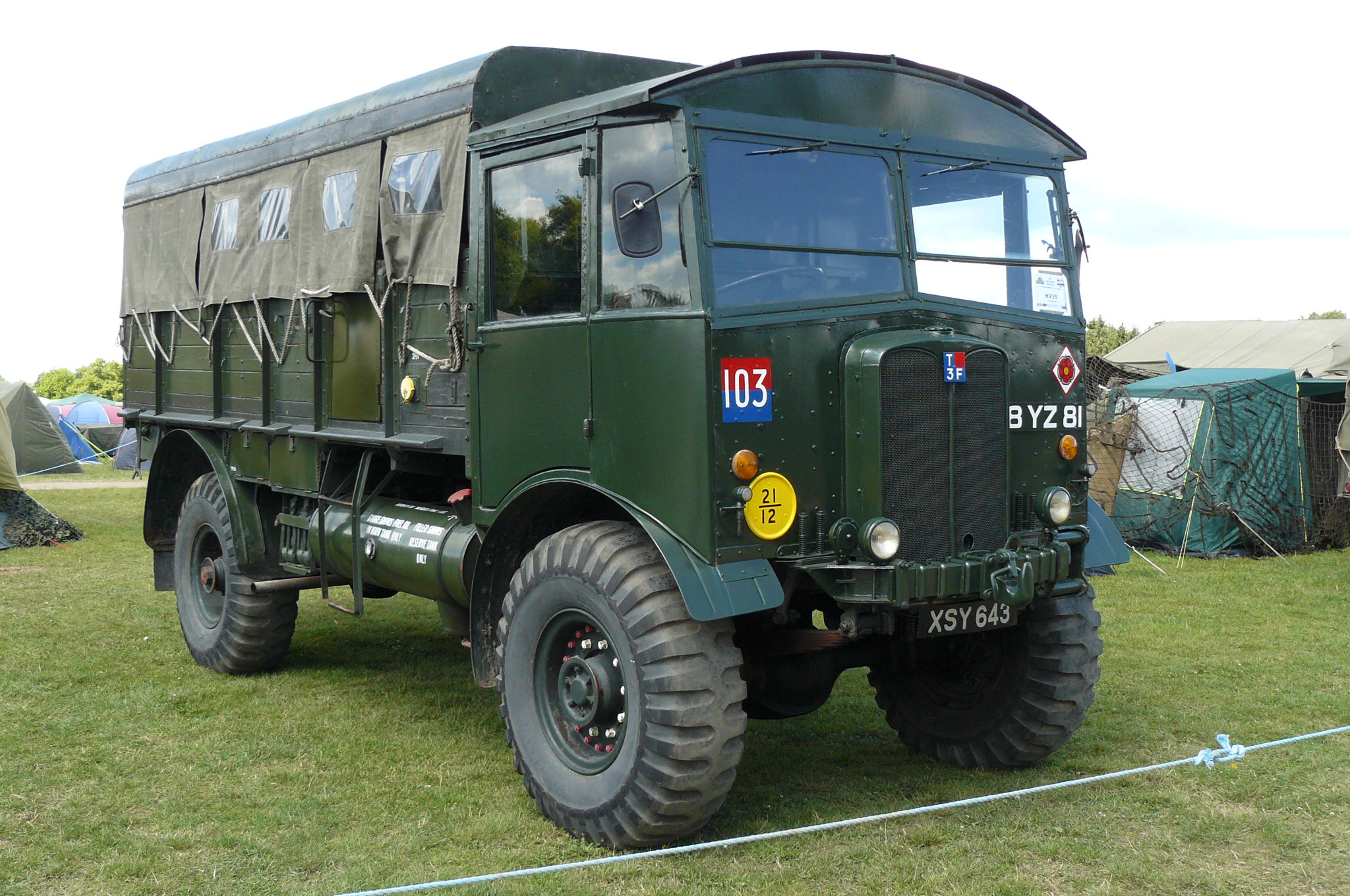 AEC Matador seen at War & Peace show in July 2011